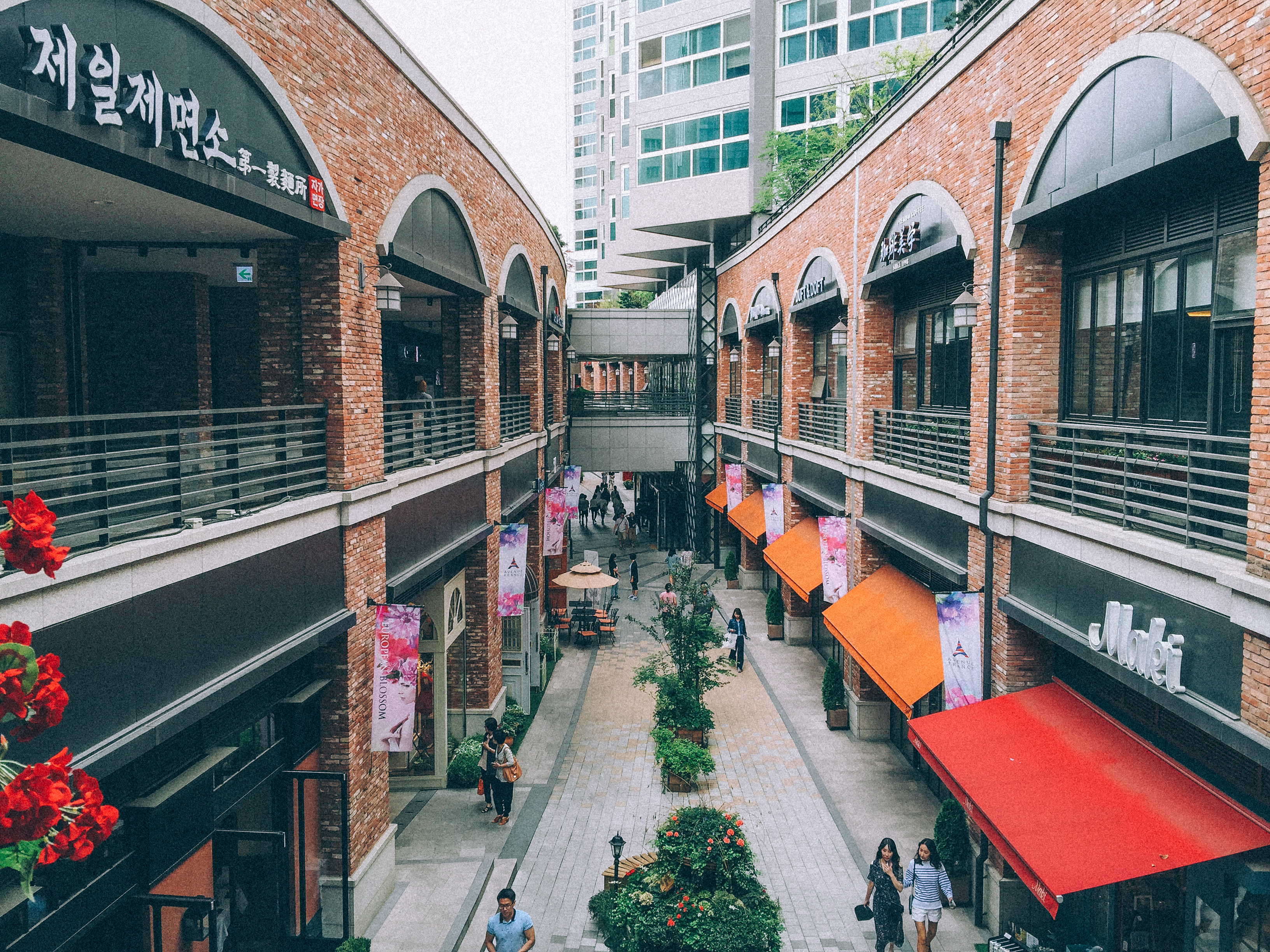 Avenue France shopping mall near Seoul.